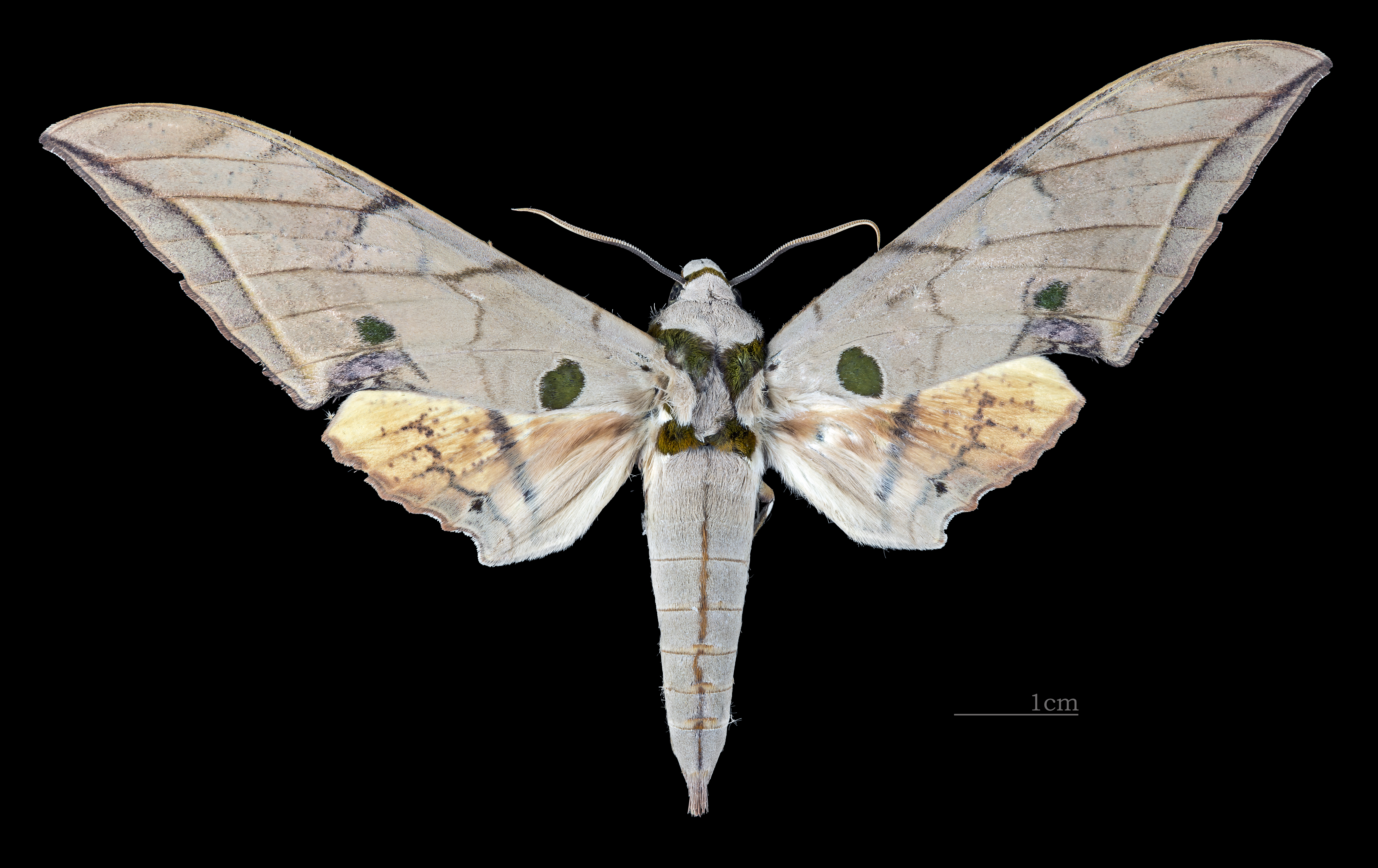 Violet gliding hawkmoth - Dorsal side Collection of the Mathematician Laurent Schwartz